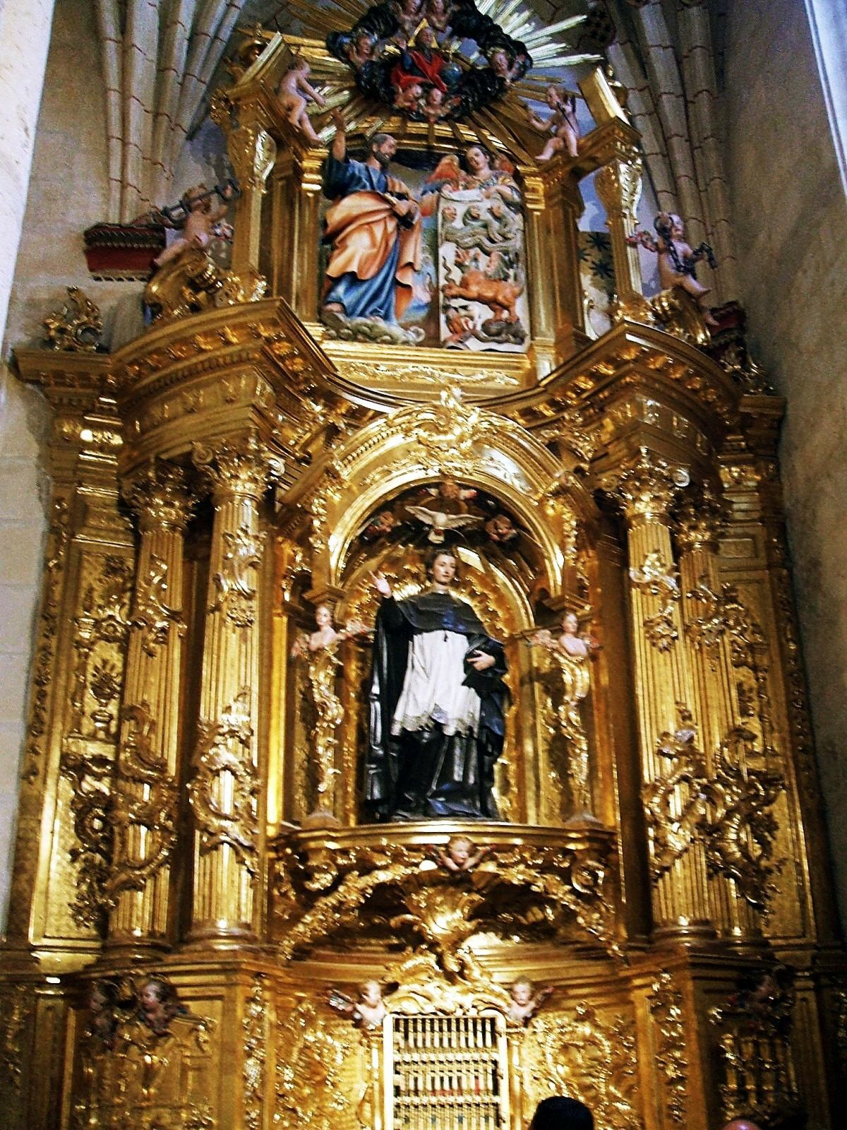 Retablo rococó (1765) en la Capilla de San Juan de Sahagún de la Catedral de Burgos, España